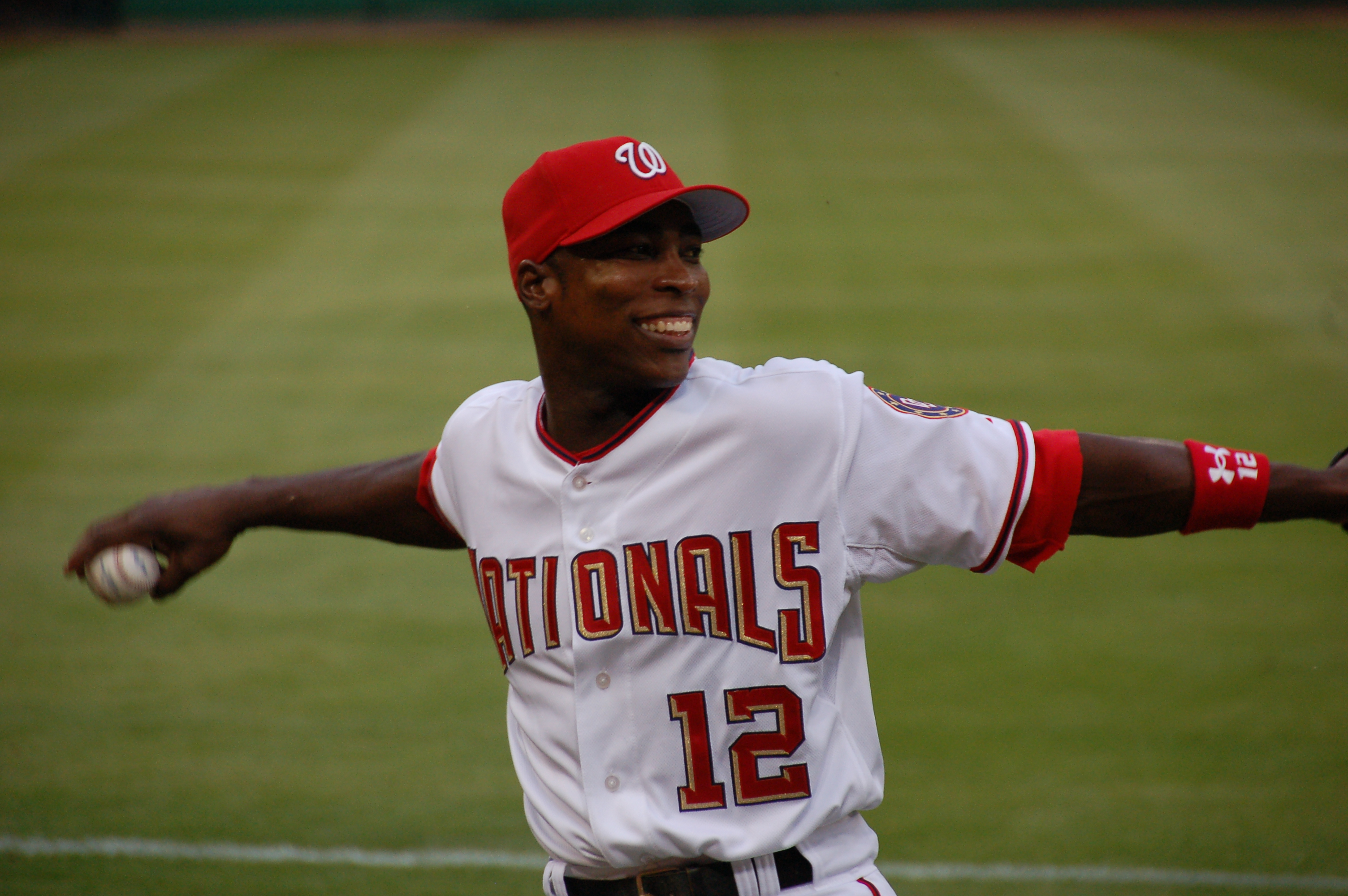 Alfonso Soriano warms up before a game between the Washington Nationals and Pittsburgh Pirates at RFK Stadium on May 5, 2006